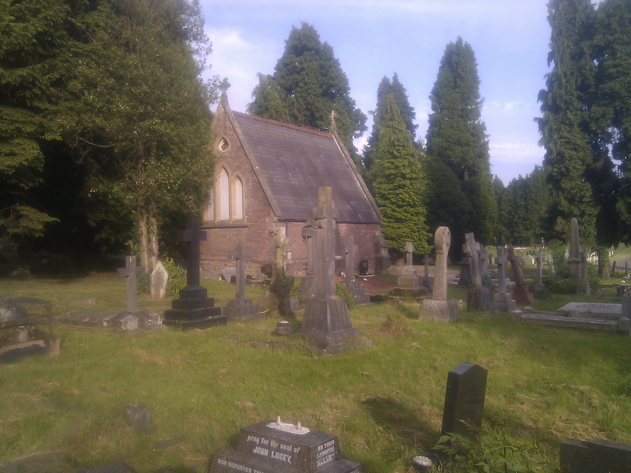 Roman Catholic chapel in St Woolos Cemetery, Newport, Wales taken by myself on 25 May 2011.